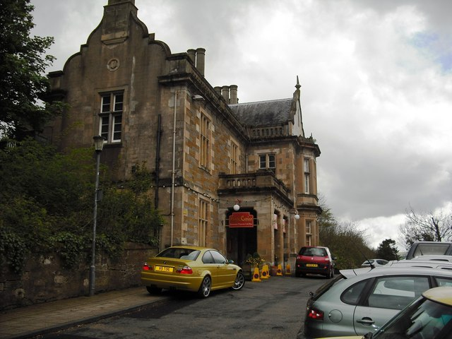 Melrose Station. An Italian restaurant now occupies part of the building. The chimneys which are just visible can be seen in File:The former Melrose Railway Station - .uk - 255709.jpg